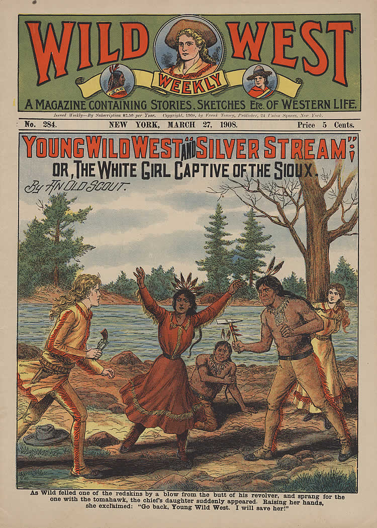 Young Wild West and Silver Stream, or The White Girl Captive of the Sioux. By an Old Scout. Cover of Wild West magazine no. 284